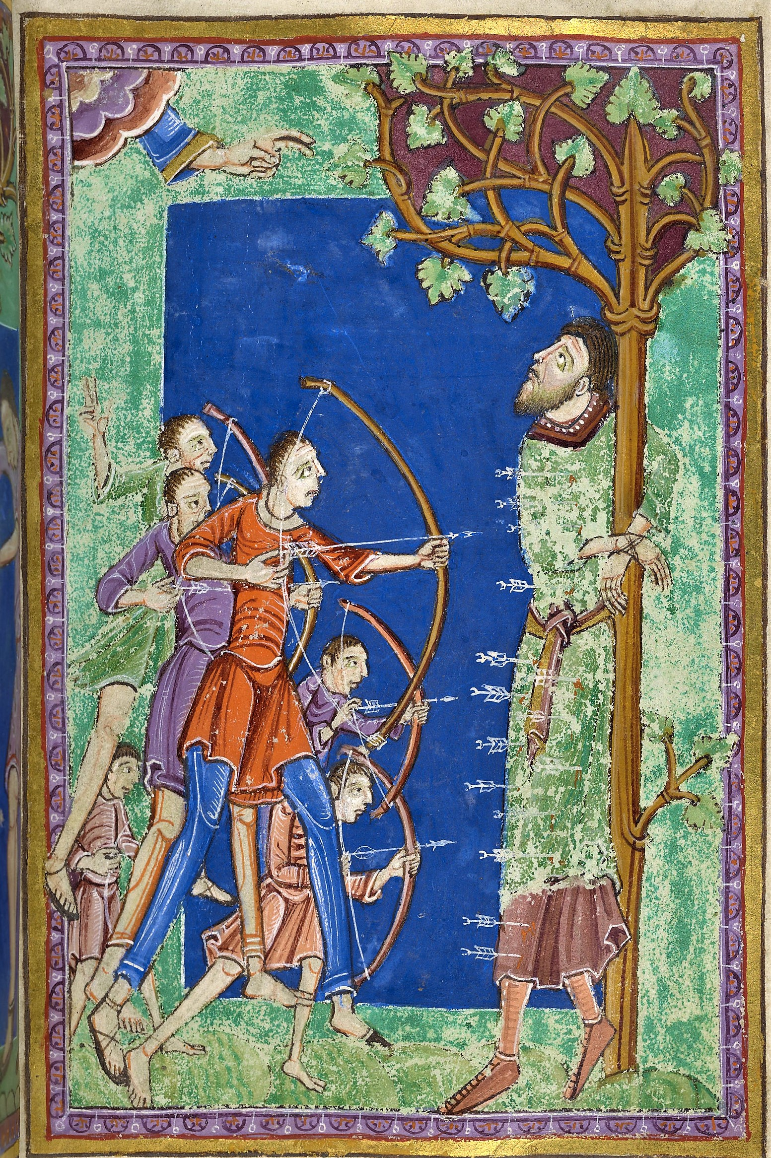 An illumination from a medieval manuscript.